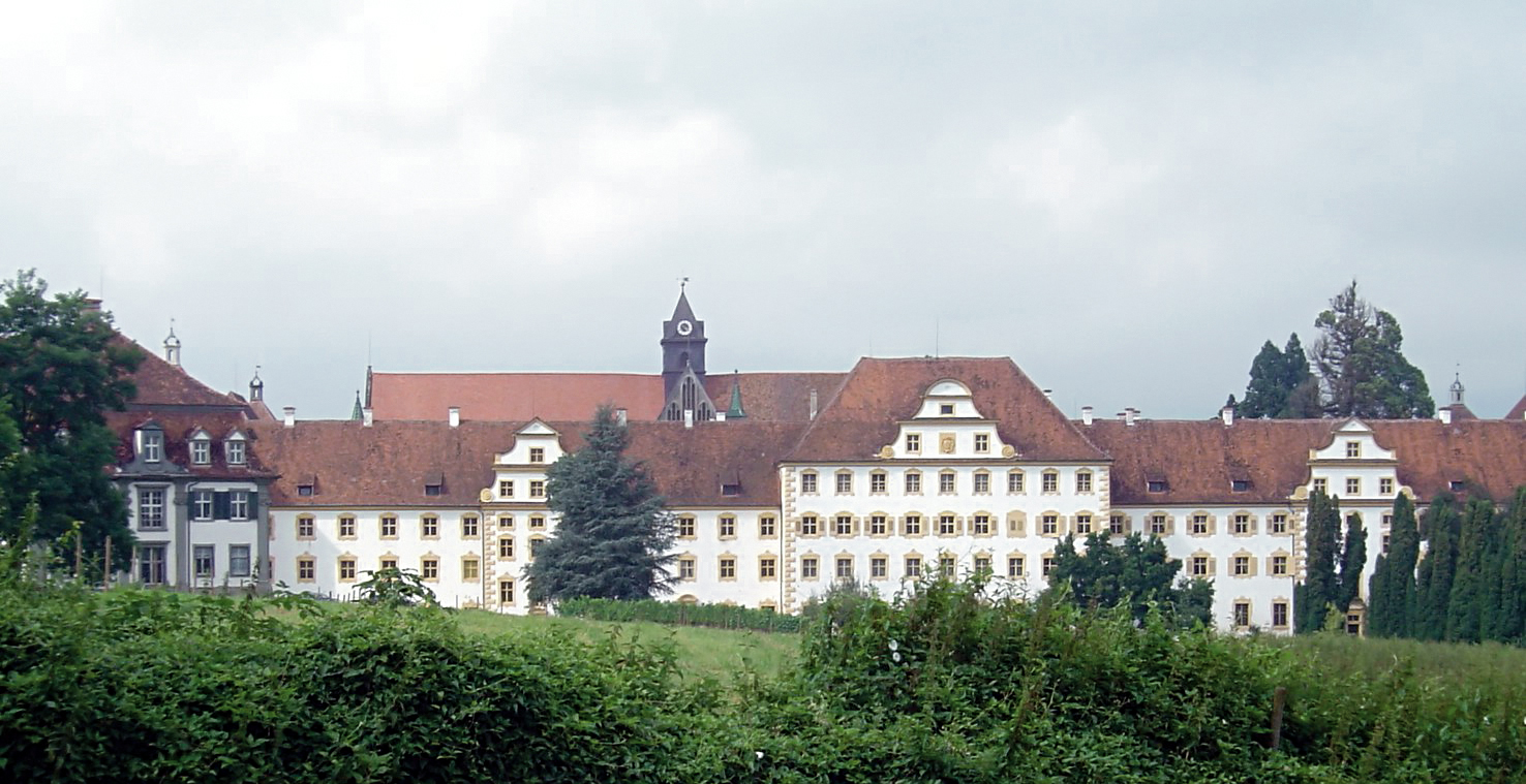 Monastery of Salem, seen from South. Photography: F. Bucher